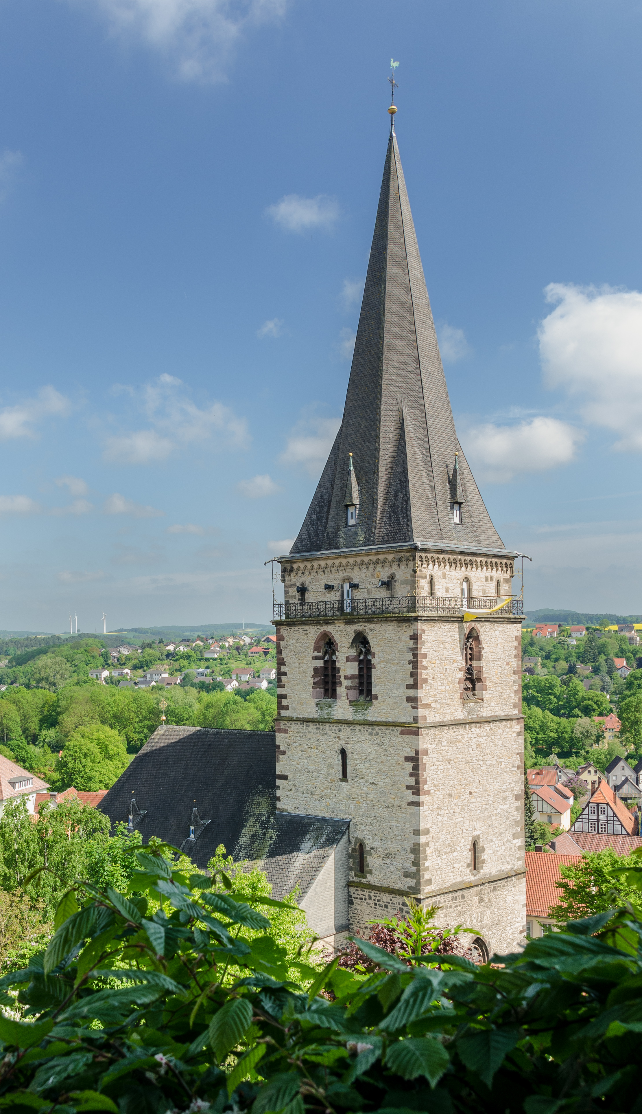 Church of Old Town of Warburg ("Altstadtkirche") St. Mariä Heimsuchung